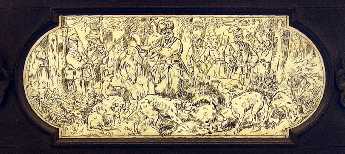 Ebony casket with ivory relief "Wojski" destined for the reception of manuscript of epic poem "Pan Tadeusz" by Adam Mickiewicz. Casket was made in 1873 by sculptor Józef Brzostowski. Housed in the collection of the Ossolinski National Institute in Wrocław.